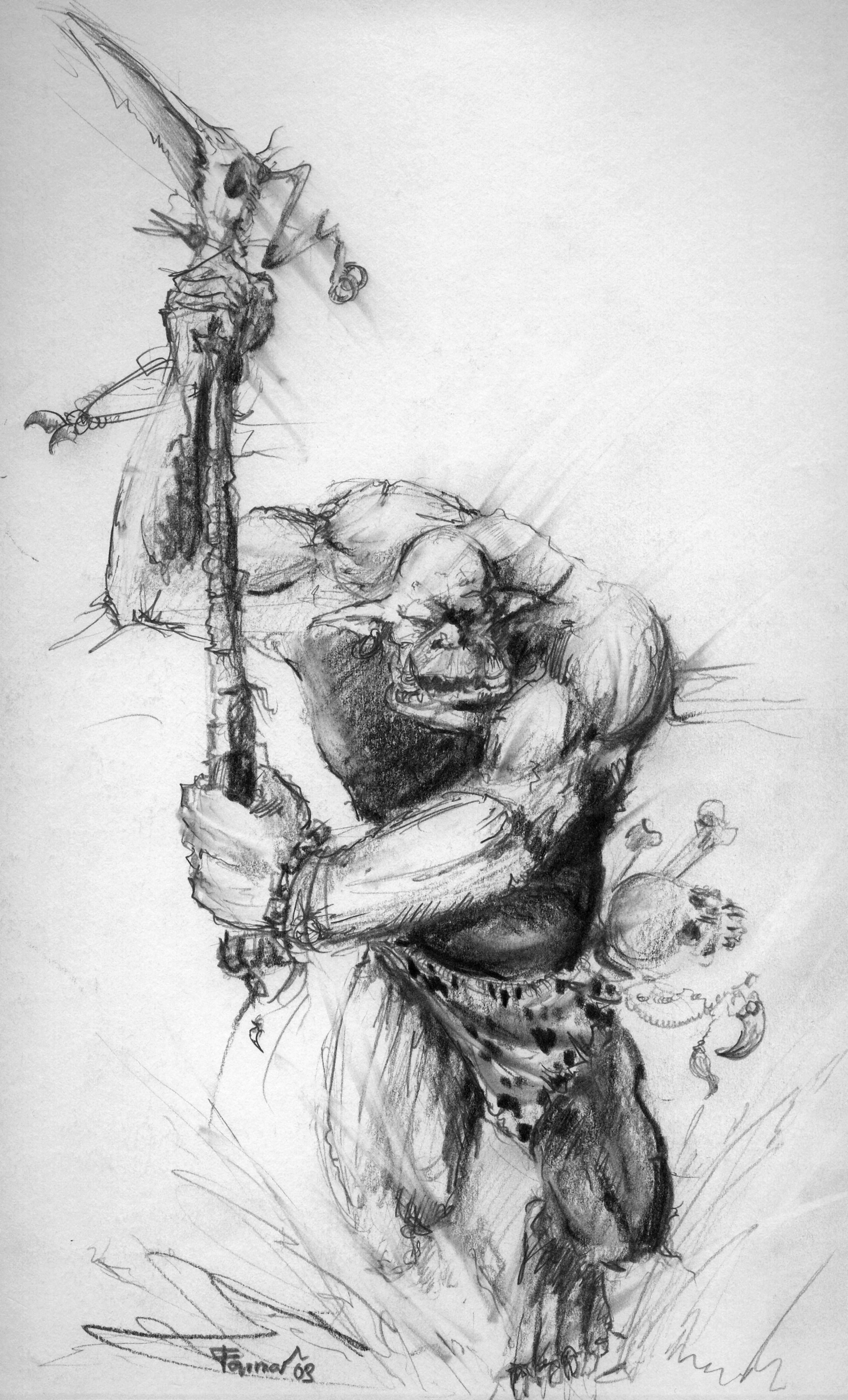 Drawing of an orc, artwork by farmerownia.